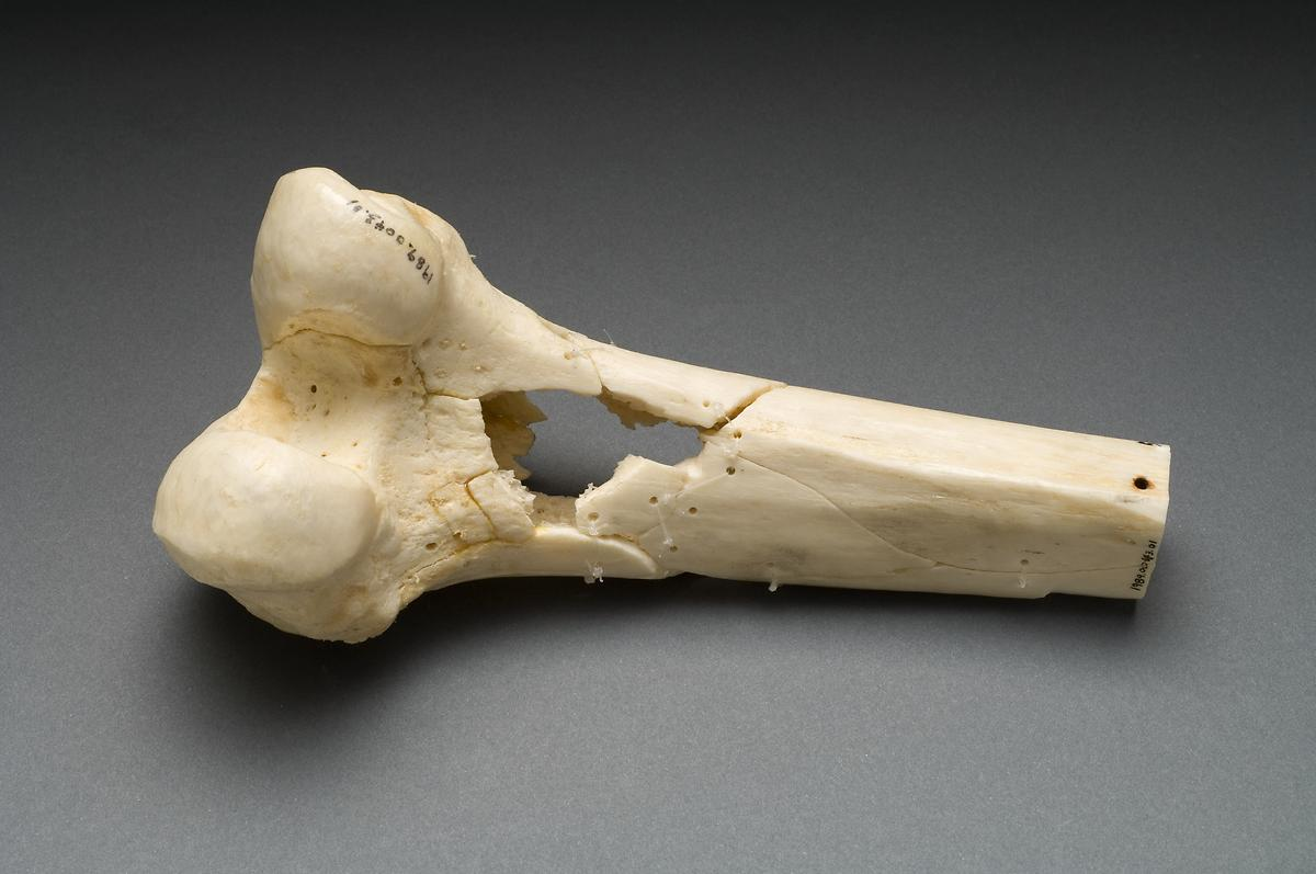 Human distal femur shot with a 510-grain lead Minié ball fired from a .58 caliber Springfield Model 1862 rifle.